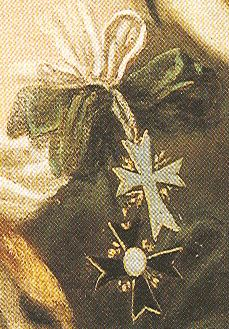 Detail of a portrait of Princess Henrietta of Nassau-Dietz Albertina from the 18th century, attributed to Jan Volders.